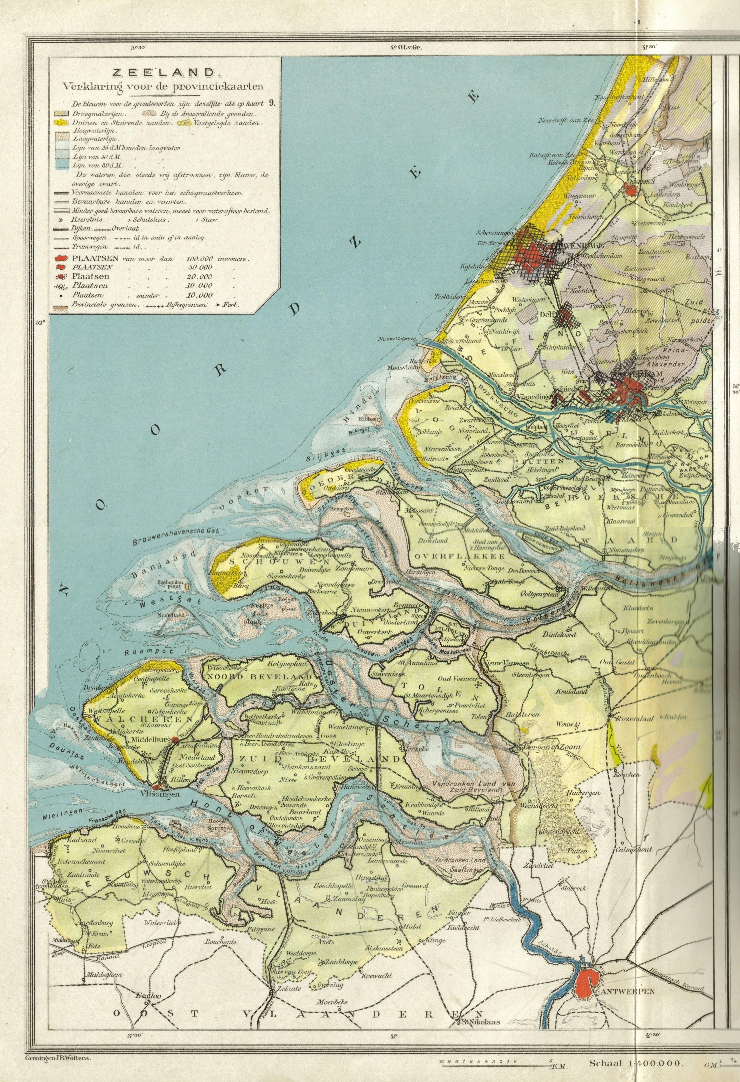 Map of Zeeland; 1910 from Schoolatlas PR Bos